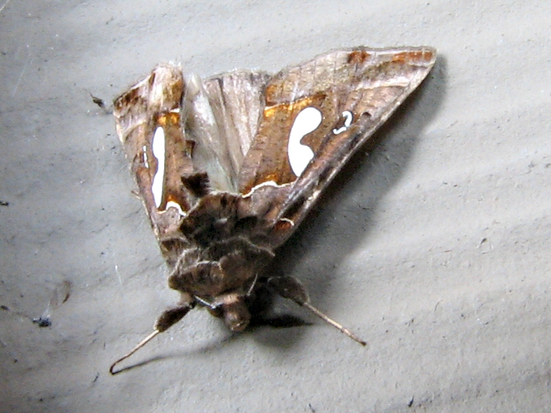 Bilobed Looper Moth (Autographa biloba)Bilobed Looper Moth